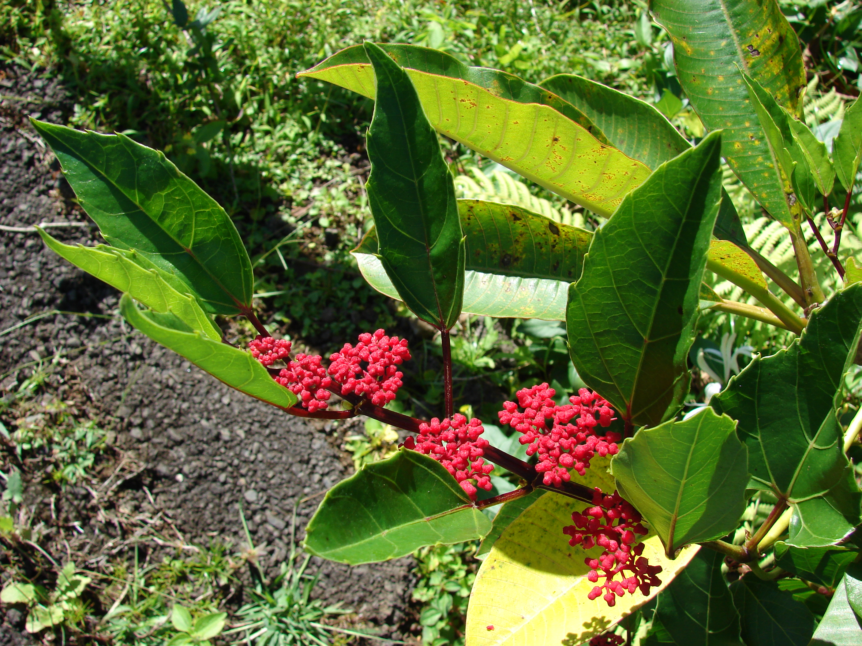 Cissus nodosa (flowers and leaves). Location: Maui, Enchanting Floral Gardens of Kula